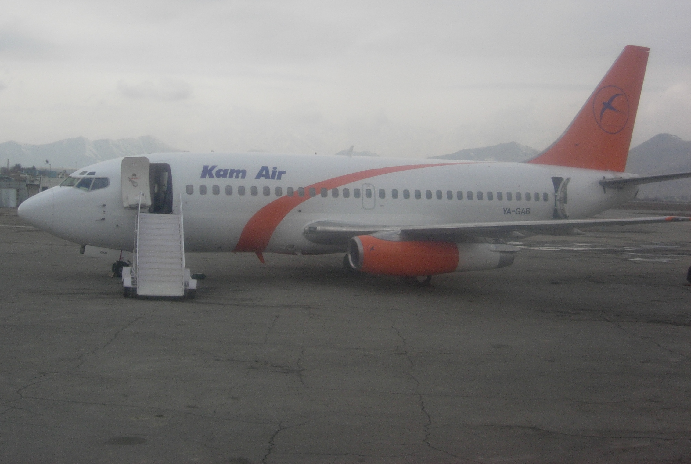 Picture of a Kam Air (YA-GAB) at Kabul Airport. Taken by Srikrishna.